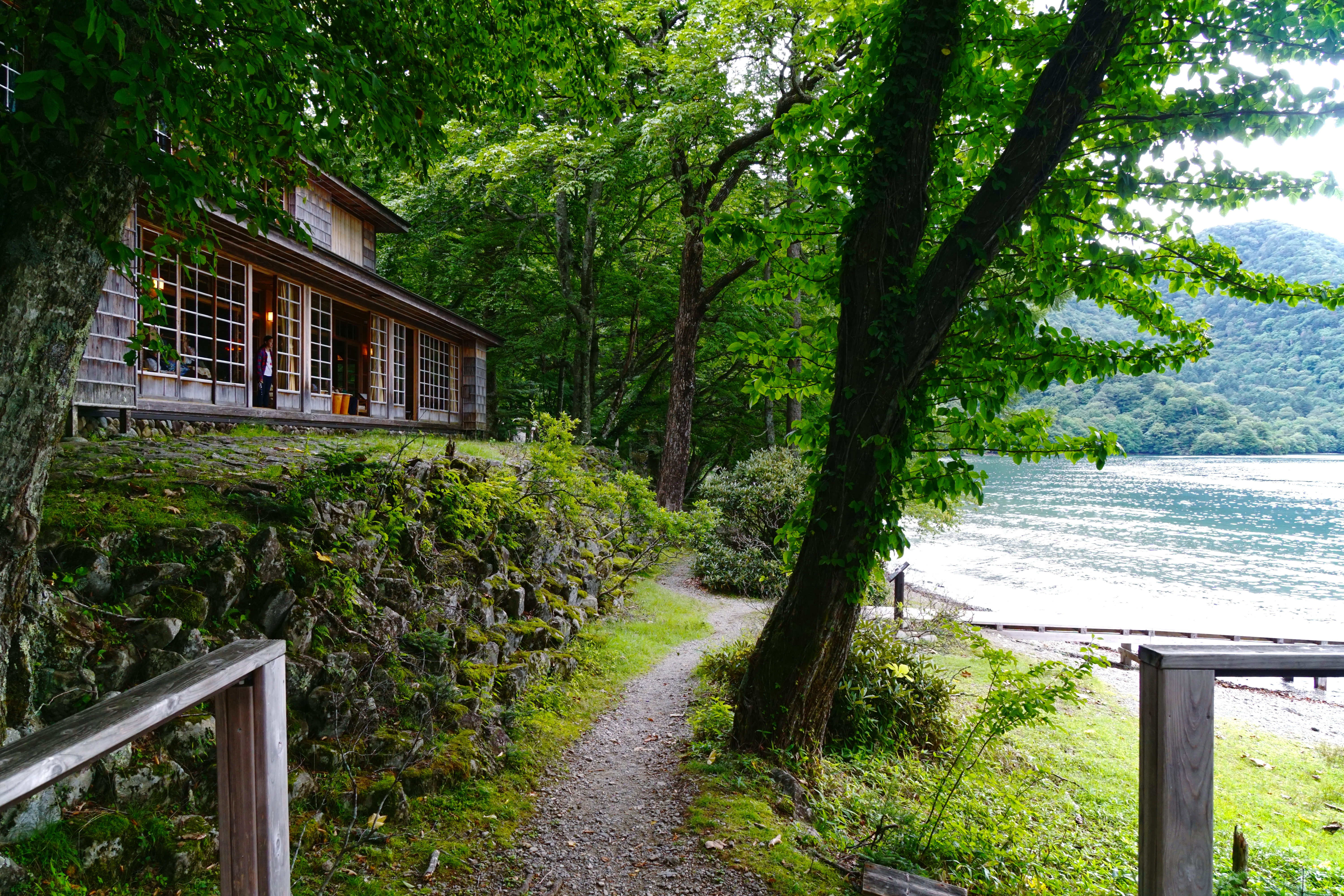 Italian_Embassy_Villa_Memorial_Park in Nikko, Tochigi prefecture, Japan